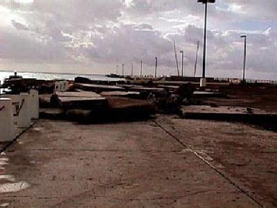 This image shows damage to a sidewalk in St. Croix after Hurricane Lenny in November of 1999.